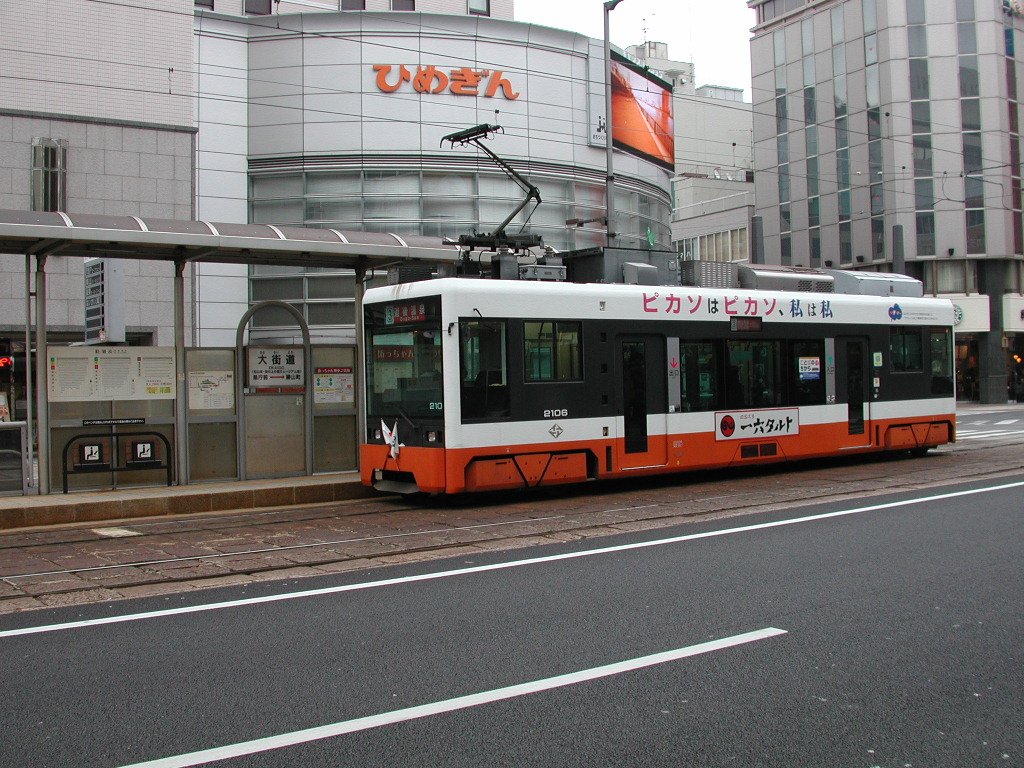 Iyo Railway Okaido Station